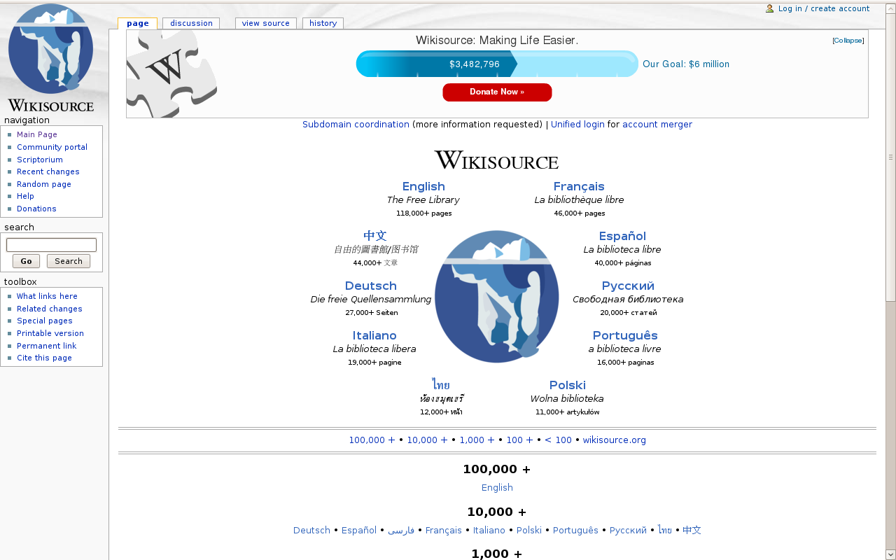 Screenshot of the multilingual Wikisource portal (